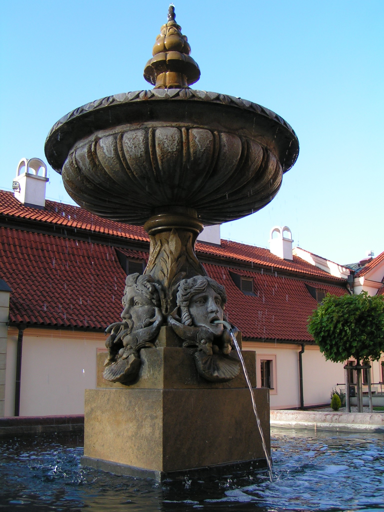 Poděbrady Castle courtyard fountain, Poděbrady, Czech Republic.